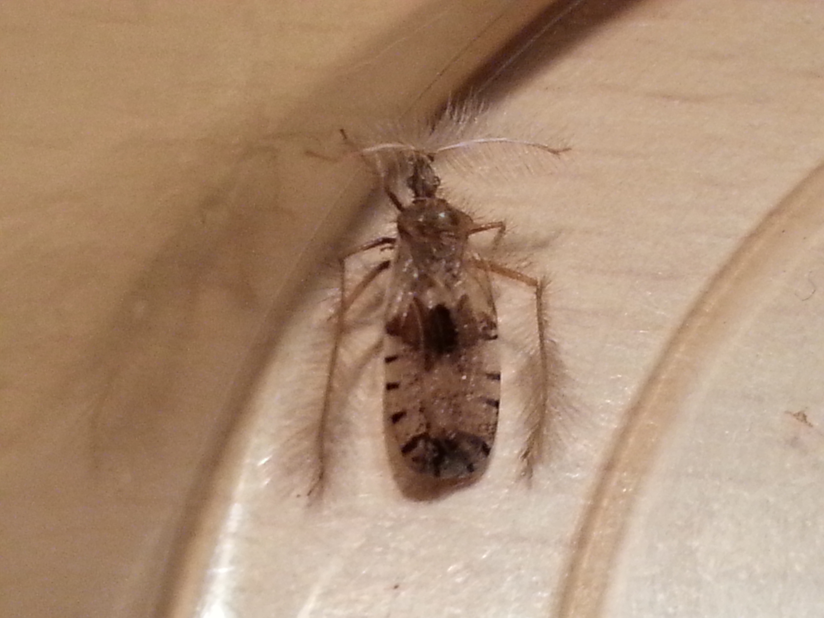 Order Hemiptera Suborder Heteroptera Family Reduviidae Genus probably Holoptilus. Specimen some 8 to 10 mm in size.